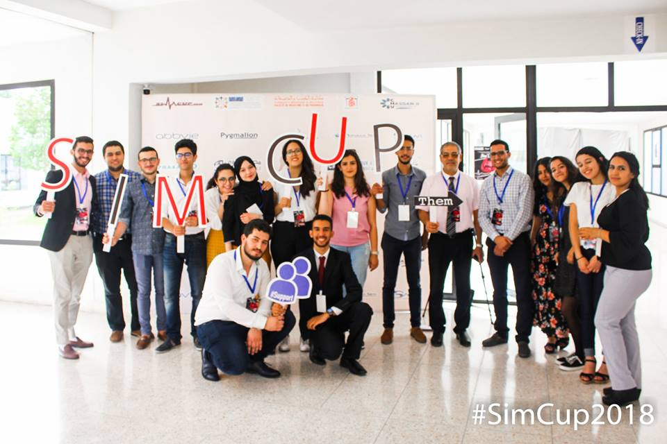 Compétition de simulation médicale SIMCUP